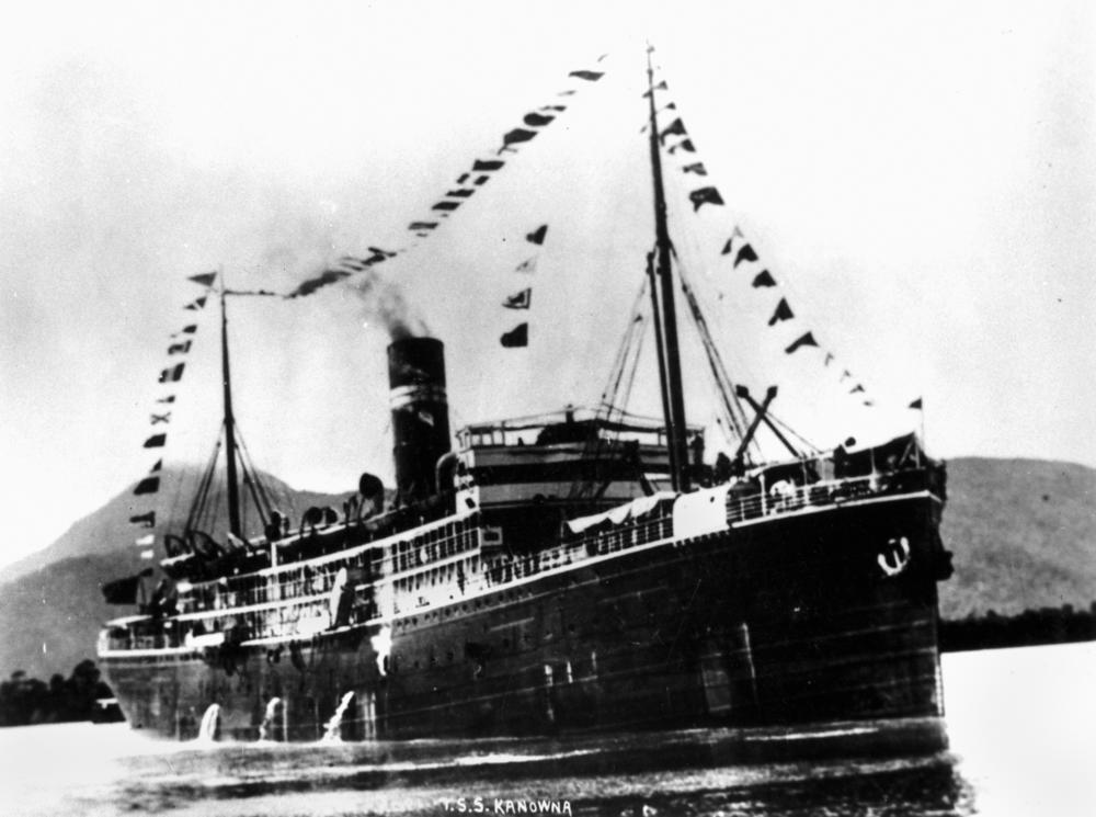 Kanowna (ship). Troopship 'Kanowna' at Cairns in 1914.